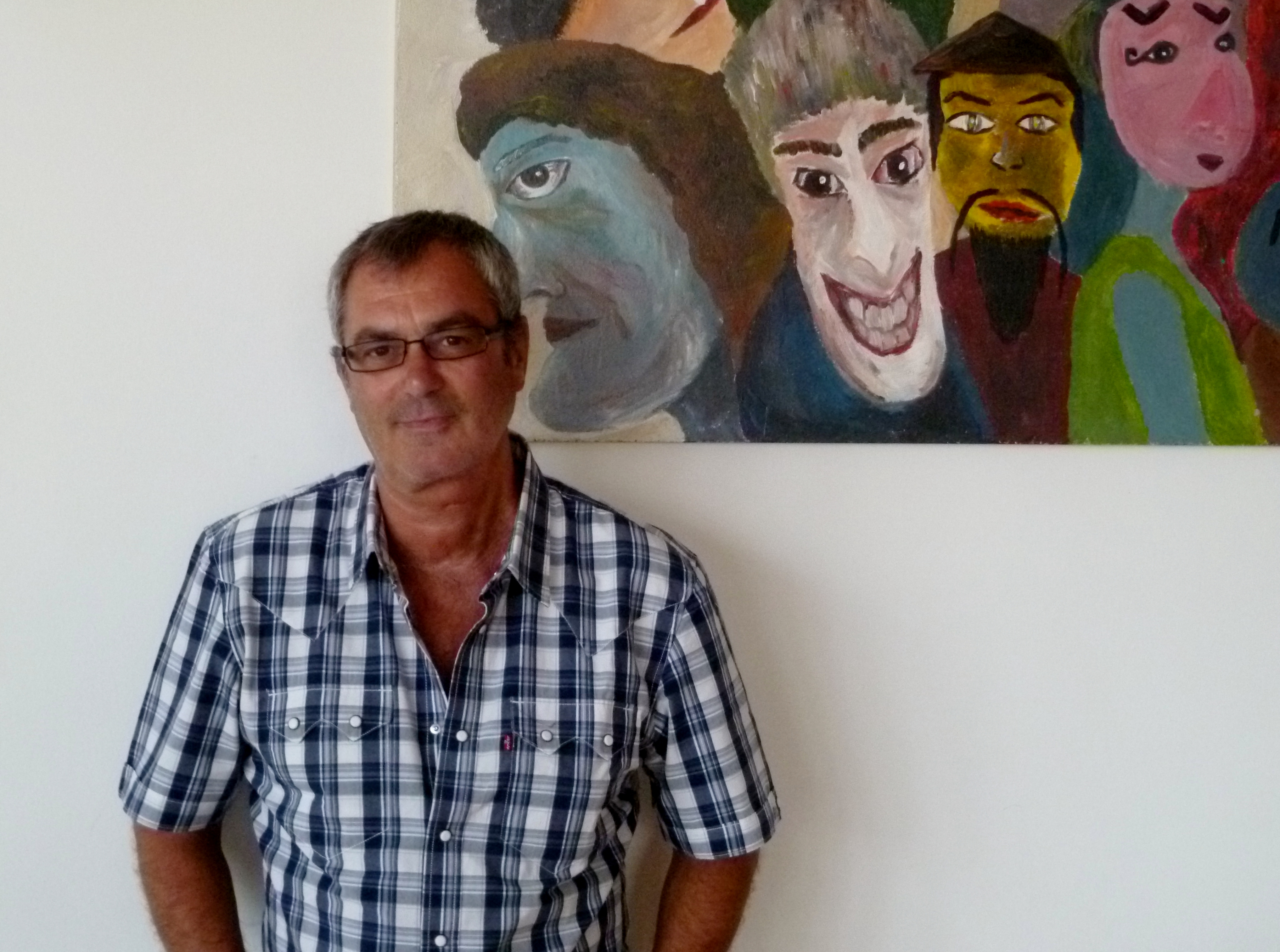 Bart Herman (1959 - ), Belgian vocalist